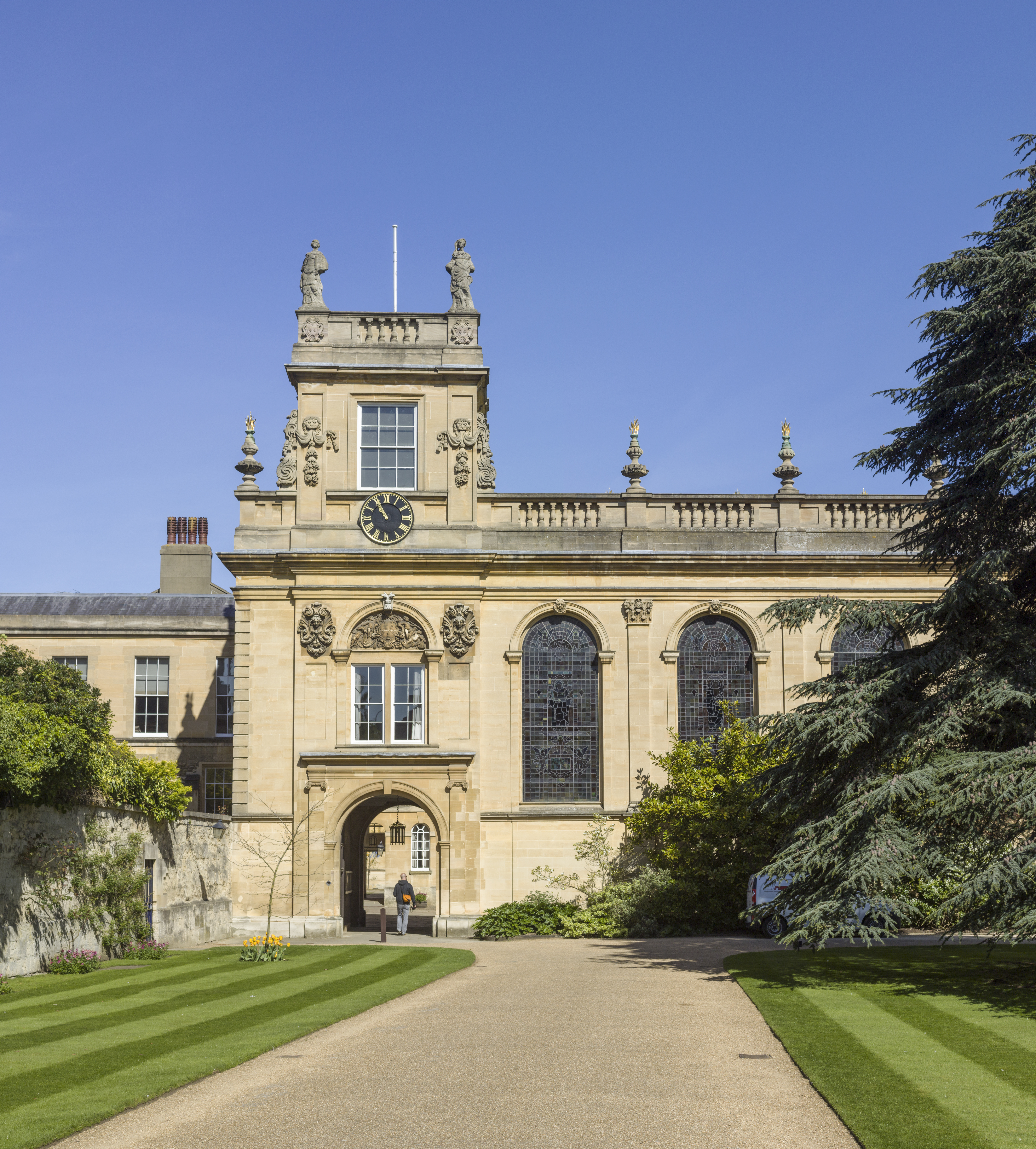 Trinity College (Oxford University) founded in 1555. View of the Tower from the Front Quadrangle.